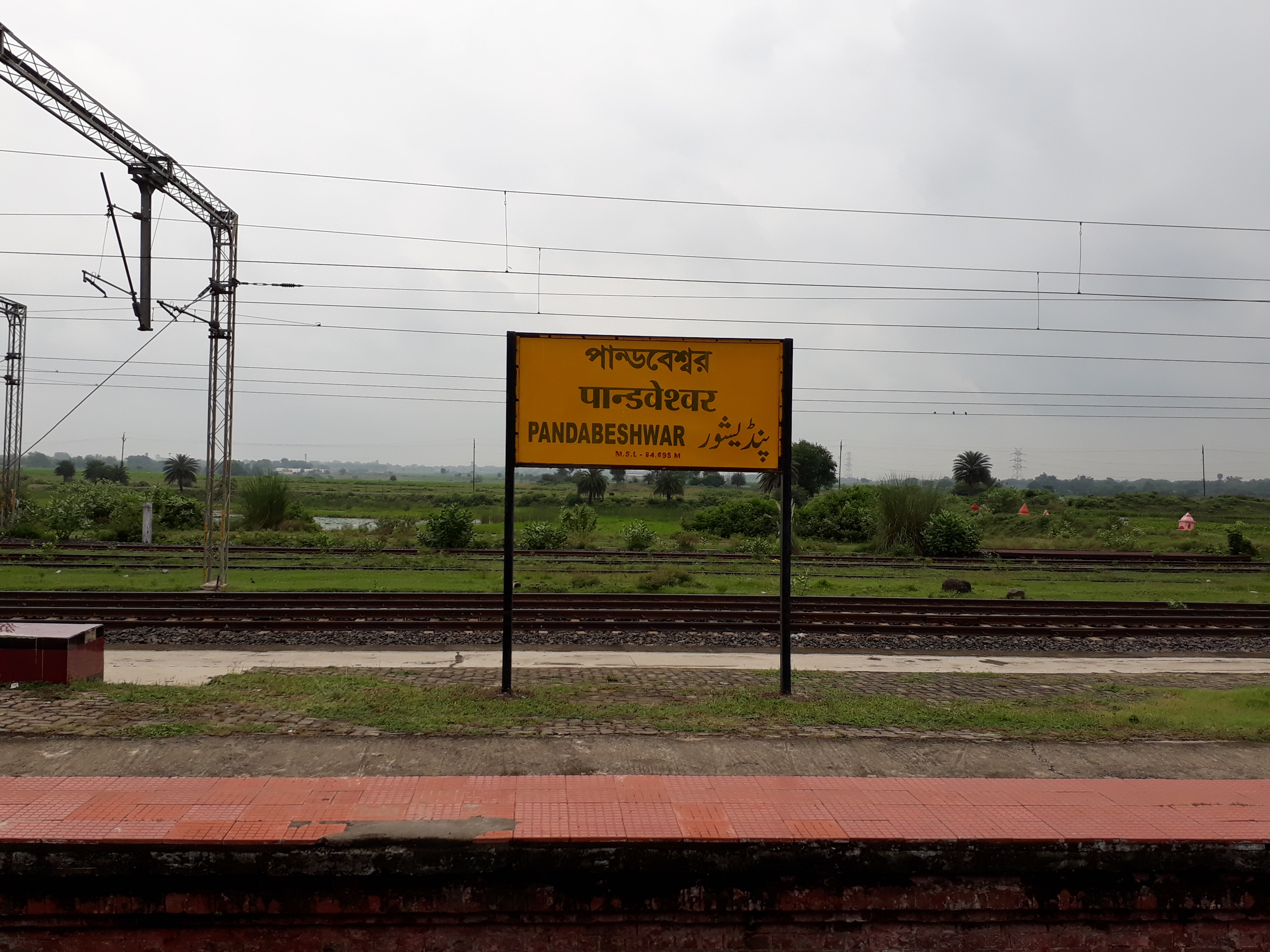 Railway Stations of West Bengal in Sainthia to Andal line.